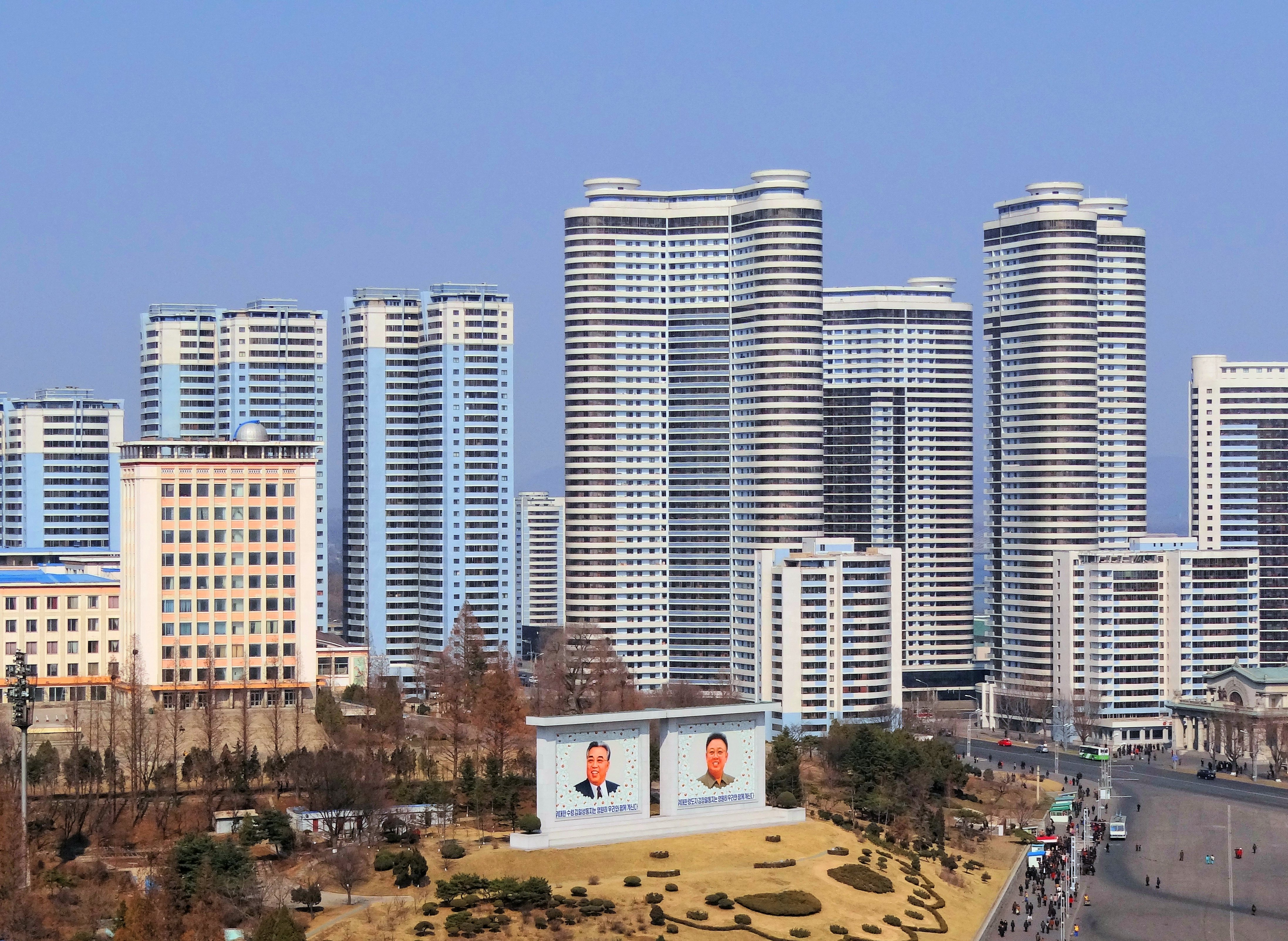 Modern highrise buildings in Pyongyang, North Korea. These buildings are located in the area between the Grand People's Study House and Mansu Hill.